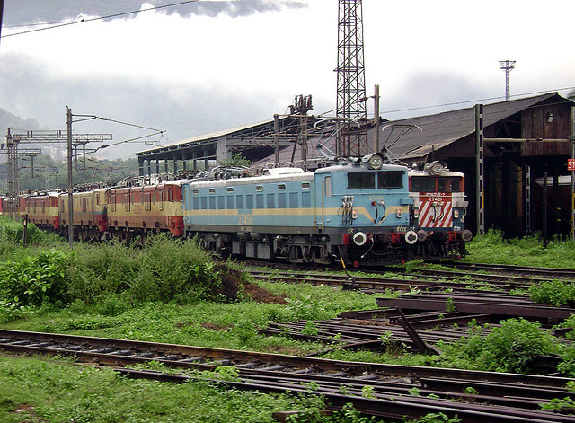 Loco trip shed at Visakhapatnam train Station, Andhra Pradesh